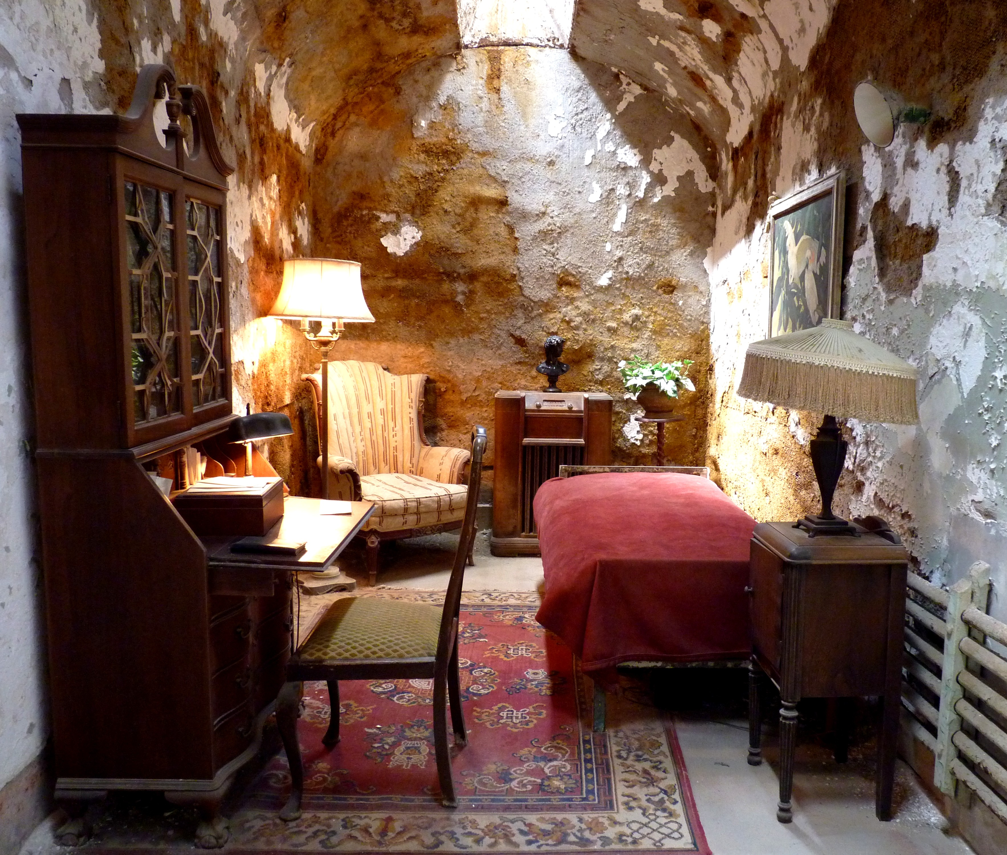 The Eastern State Penitentiary, also known as ESP is a former American prison in Philadelphia, Pennsylvania. It is found at 2027 Fairmount Avenue between Corinthian Avenue and North 22nd Street in the Fairmount section of the city, and was operational from 1829 until 1971. The penitentiary refined the revolutionary system of separate incarceration first pioneered at the Walnut Street Jail which emphasized principles of reform rather than punishment. Notorious criminals such as bank robber Willie Sutton and Al Capone were held inside its innovative wagon wheel design. At its completion, the building was the largest and most expensive public structure ever erected, and quickly became a model for more than 300 prisons worldwide.